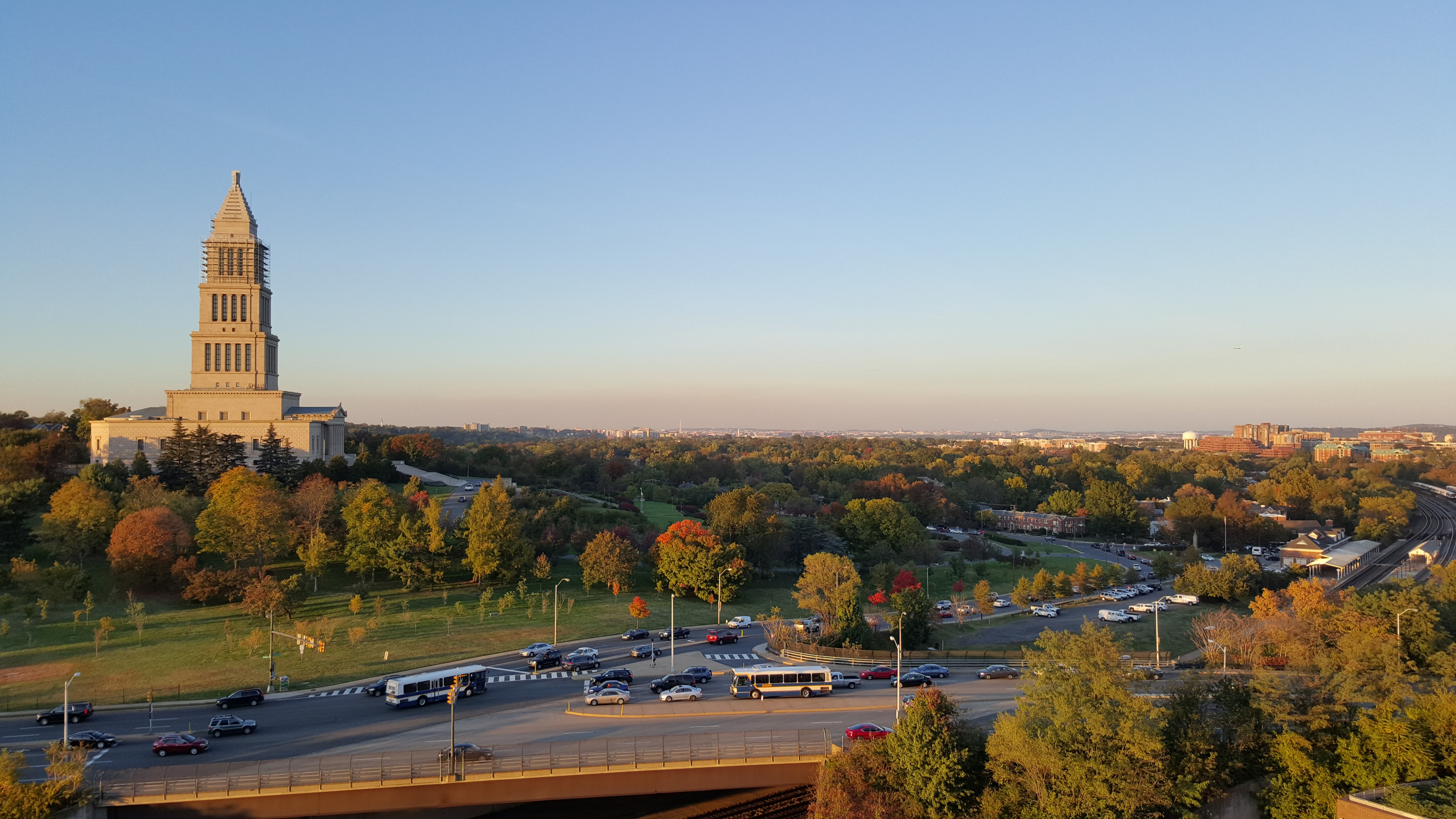 A picture of Alexandria with Washington and Arlington in the distance.